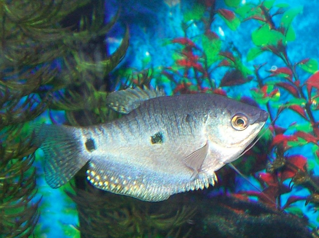 Female Three Spot gourami